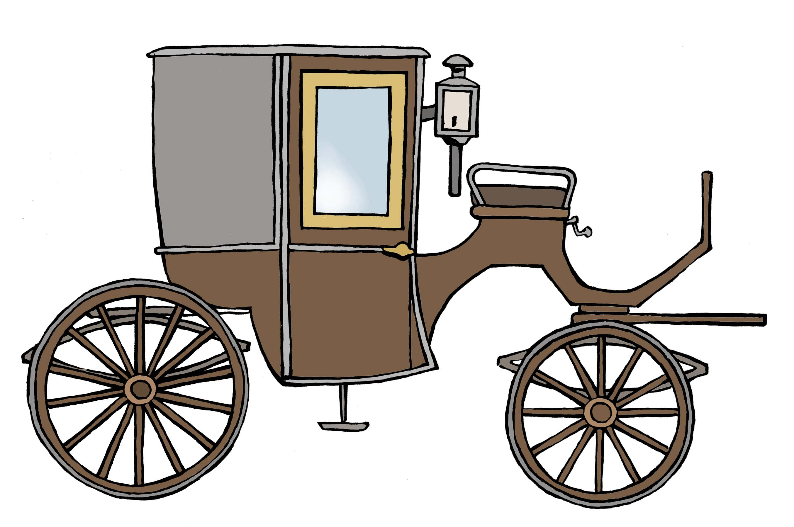 Brougham